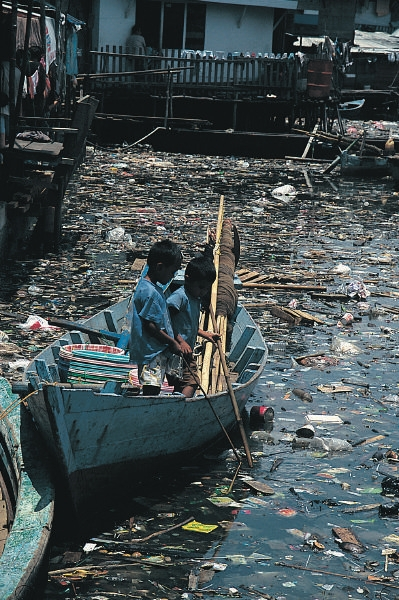 Water pollution causes serious risks to people's health. However, as the pollution of Minamata Bay in Japan showed, it can be the pollutants that cannot be seen which cause most harm.